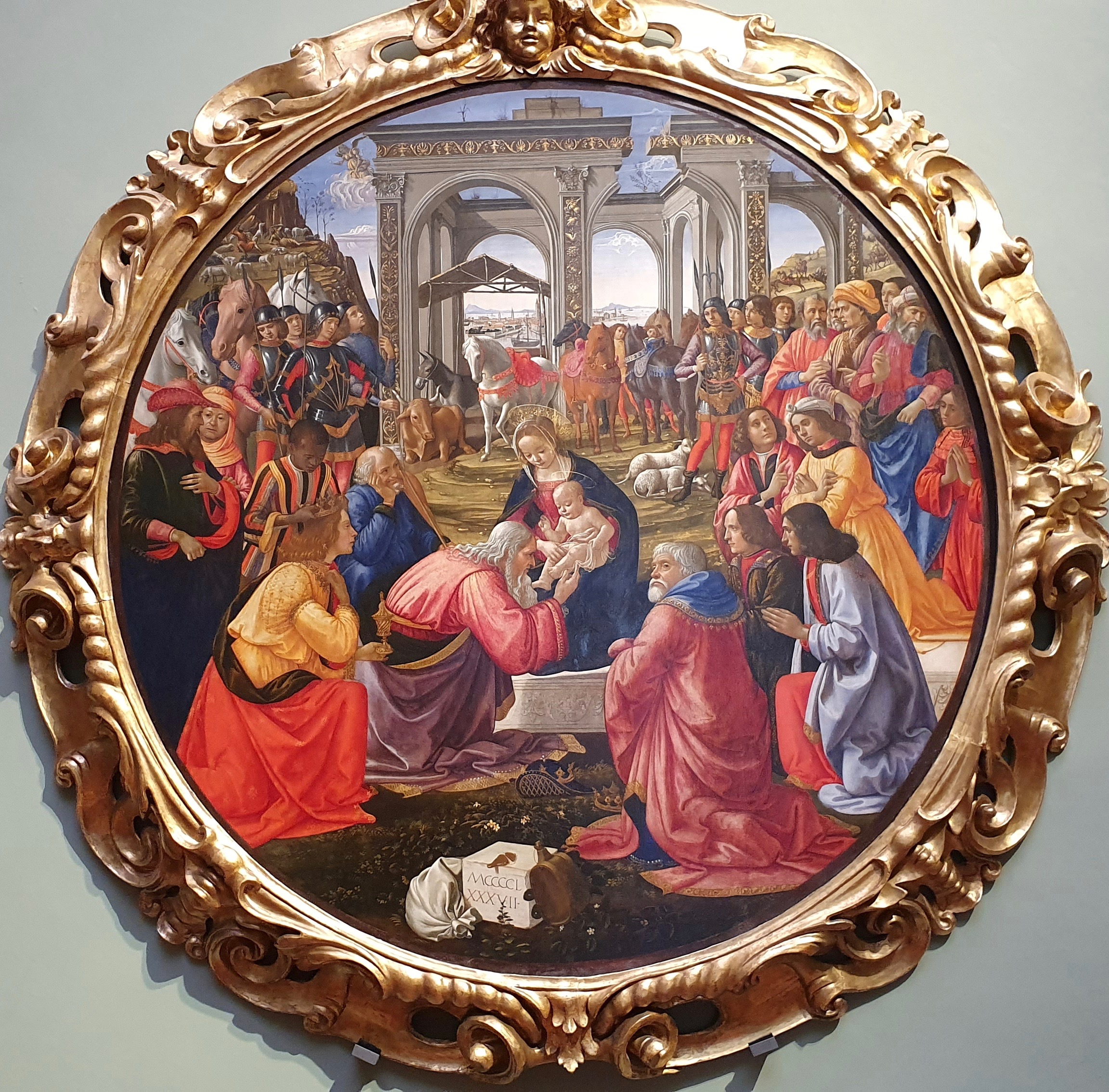 Tornabuoni Adoration of the Three Kings by Domenico Ghirlandaio at Uffizi Gallery